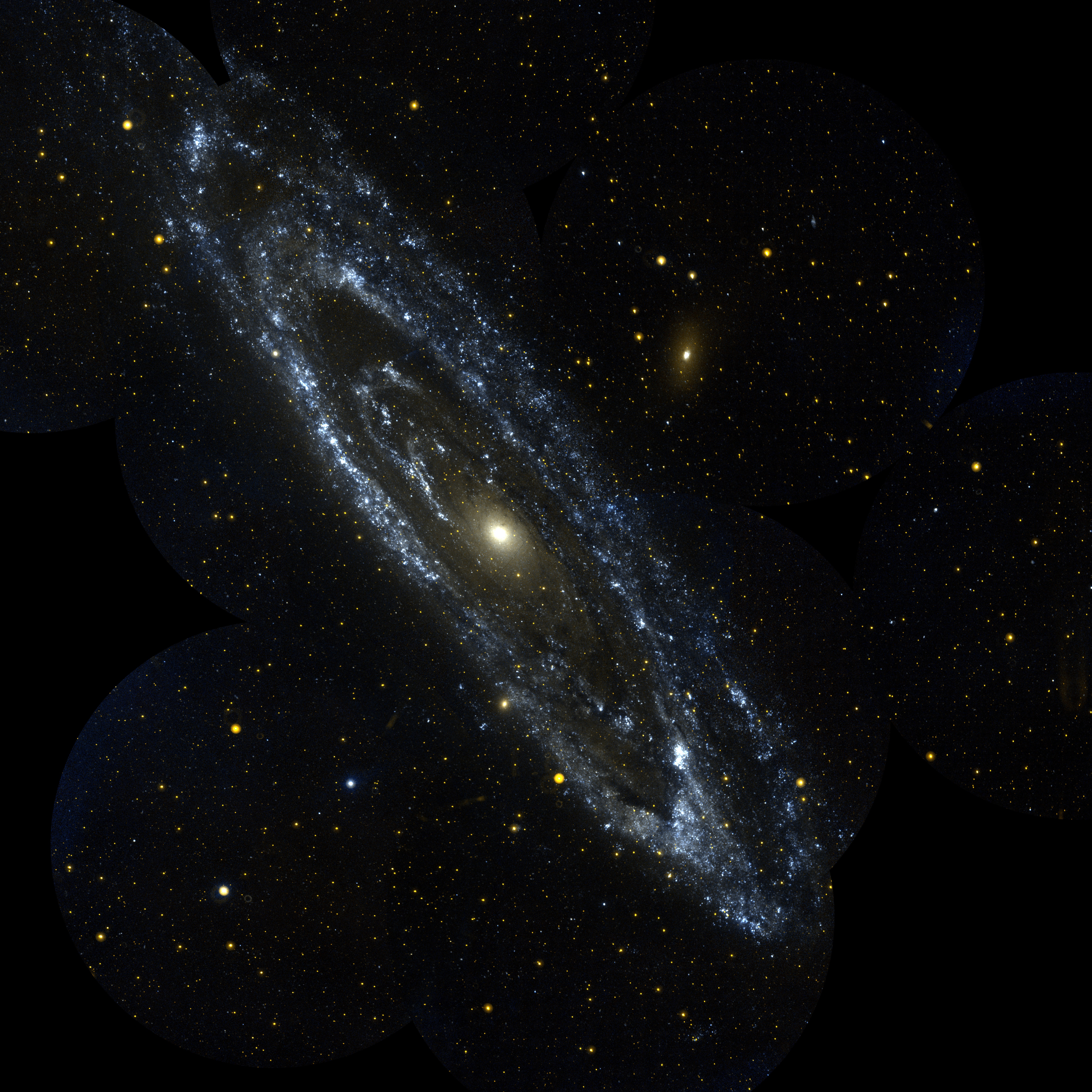 This image is a Galaxy Evolution Explorer observation of the large galaxy in Andromeda, Messier 31. The Andromeda galaxy, spanning 260,000 light-years across, is the most massive in the local group of galaxies that includes our Milky Way. Andromeda is the nearest large galaxy to our own at approximately 2.5 million light-years away. The image is a mosaic of 10 separate Galaxy Evolution Explorer images taken in September, 2003. This image is a two-color composite, where blue represents far-ultraviolet light and red is near-ultraviolet light, and shows blue regions of young, hot, high mass stars tracing out the spiral arms where star formation is occurring, and the central orange-white "bulge" of old, cooler stars formed long ago. The star forming arms of Messier 31 are unusual in being quite circular rather than the usual spiral shape. Several companion galaxies can also be seen. These include Messier 32, a dwarf elliptical galaxy directly below the central bulge and just outside the spiral arms, and Messier 110 (M110), which is above and to the right of the center. M110 has an unusual far ultraviolet bright core in an otherwise "red," old star halo. Many other regions of star formation can be seen far outside the main body of the galaxy.